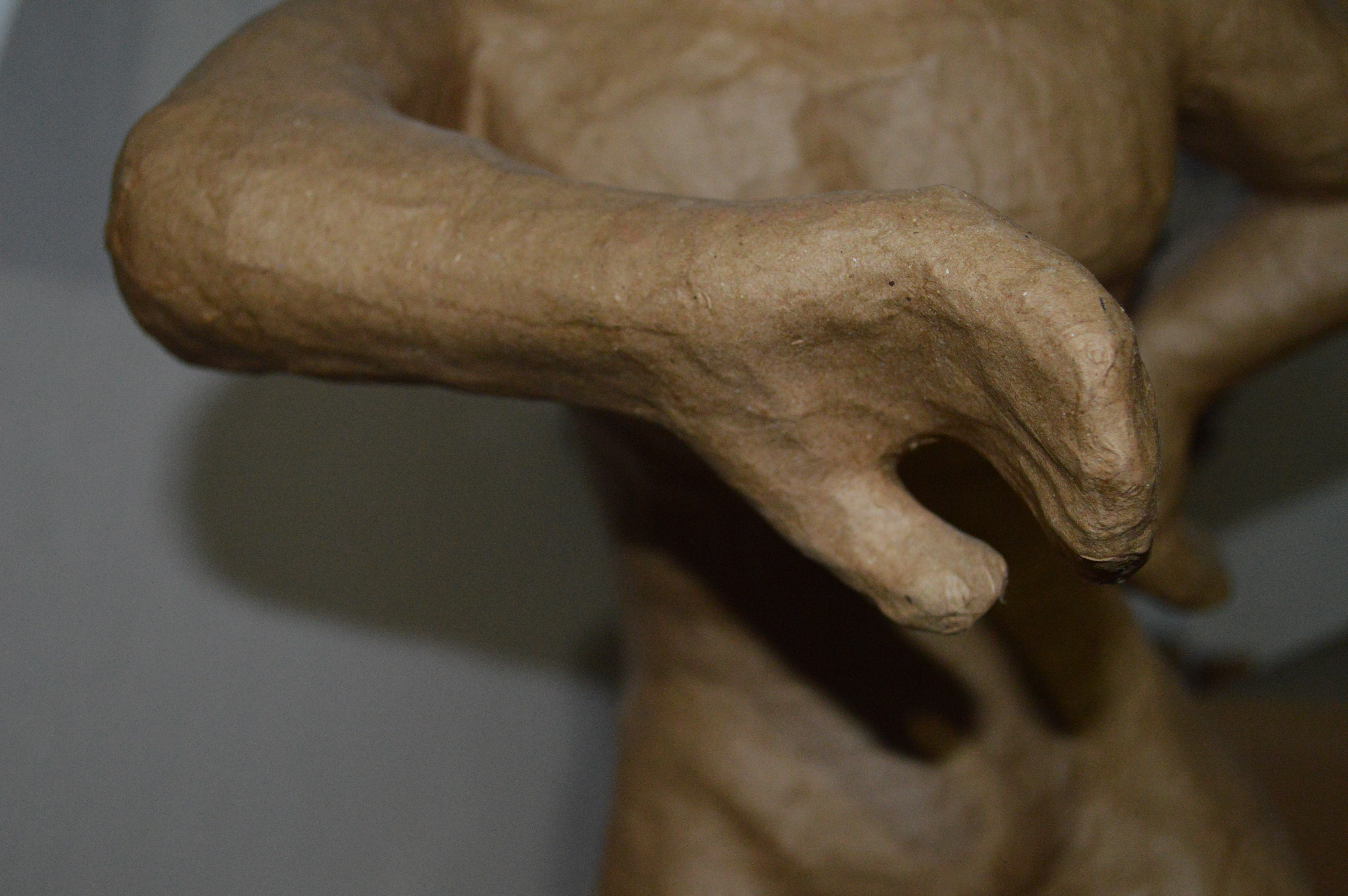 Detail of a cartonería figure in progress at the workshop of Rodolfo Villena Hernandez in Puebla, Mexico